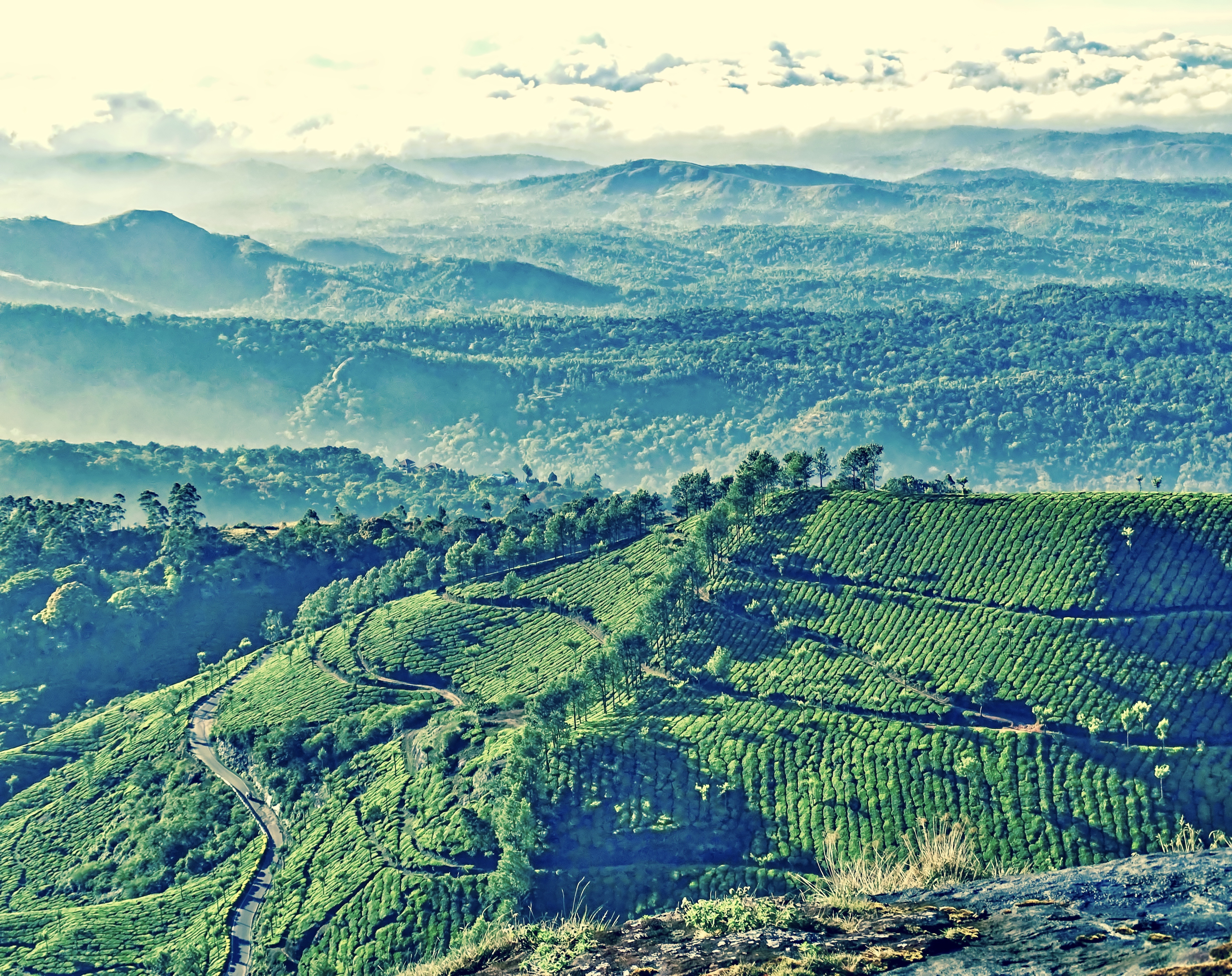 Tea plantations of India, Western Ghats, roads through plantations